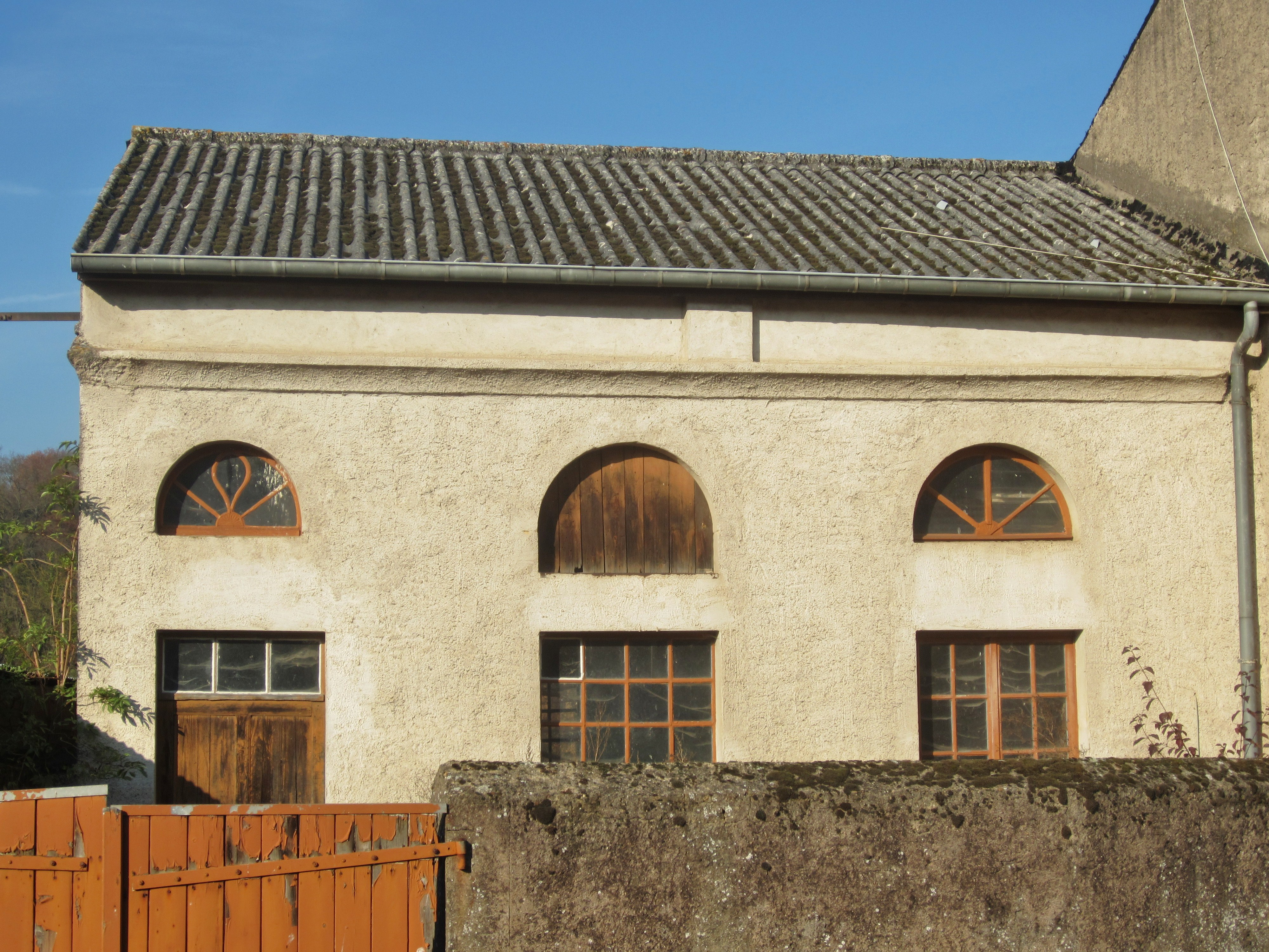 Description ancienne synagogue Sentzich Date21 November 2011Sourcemon appareil photoAuthorAimelaimePermission (Reusing this file) ancienne synagogue Sentzich